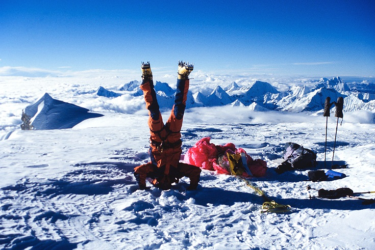 Andi Siebenhofer-headstand on Huascaran, Peru